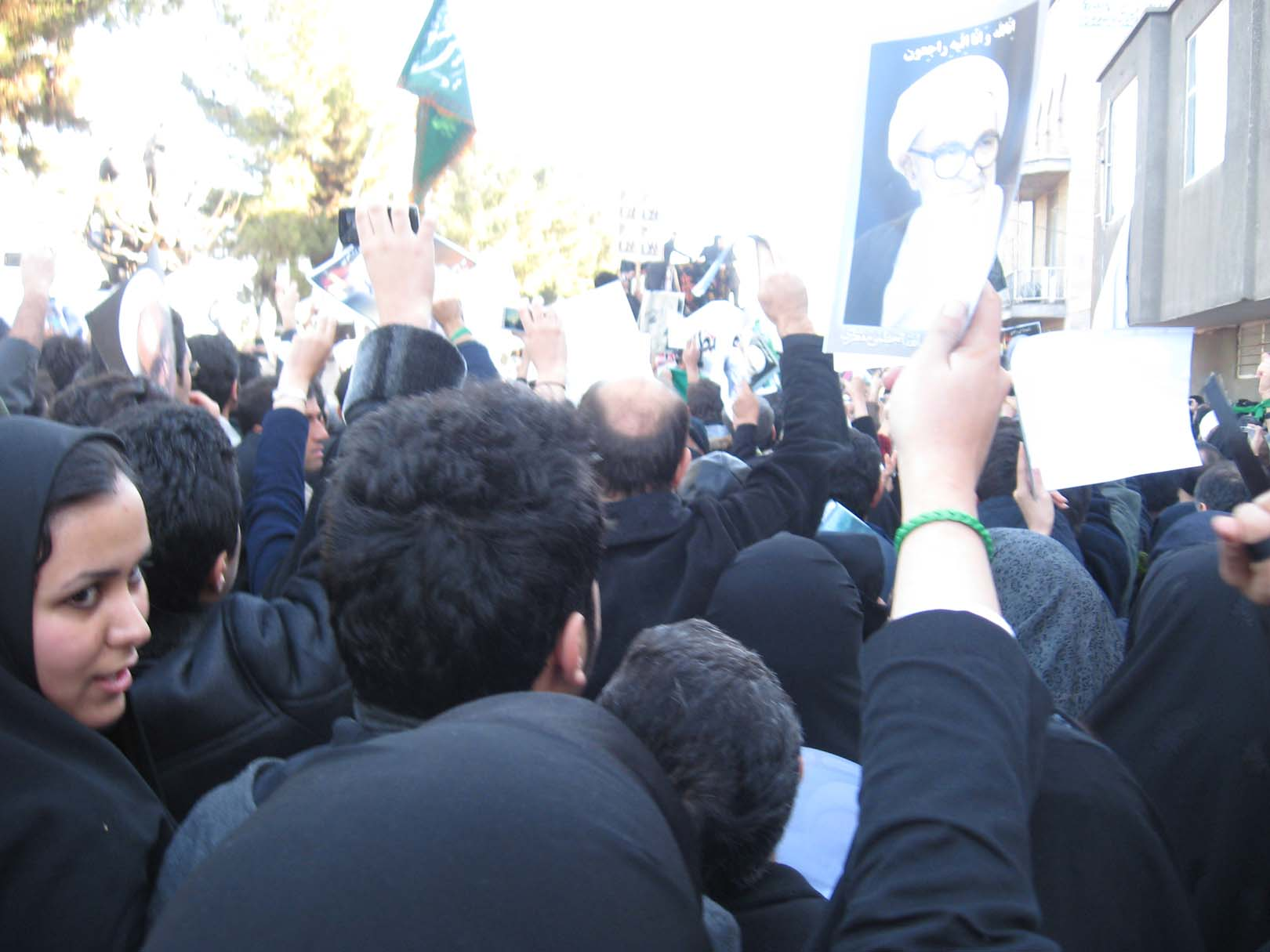 The funeral of Grand Ayatollah Hosein-Ali Montazeri 2009